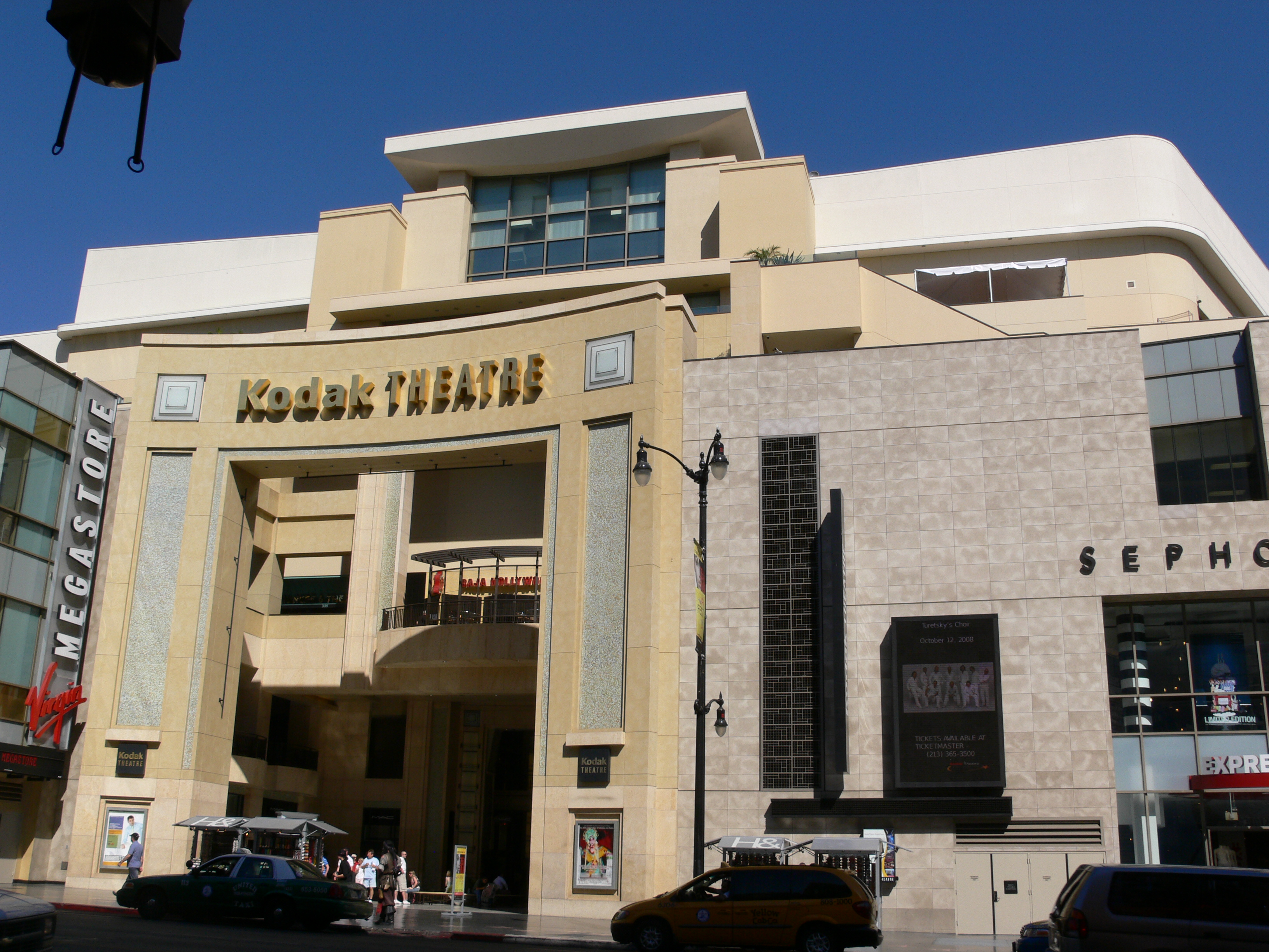 Kodak Theatre entertainment and shopping complex, Hollywood Boulevard, Los Angeles, California